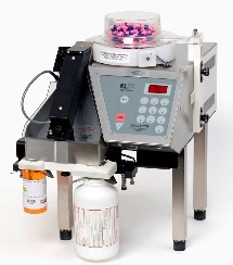 Kirby Lester KL25 tablet counter & prepackaging device